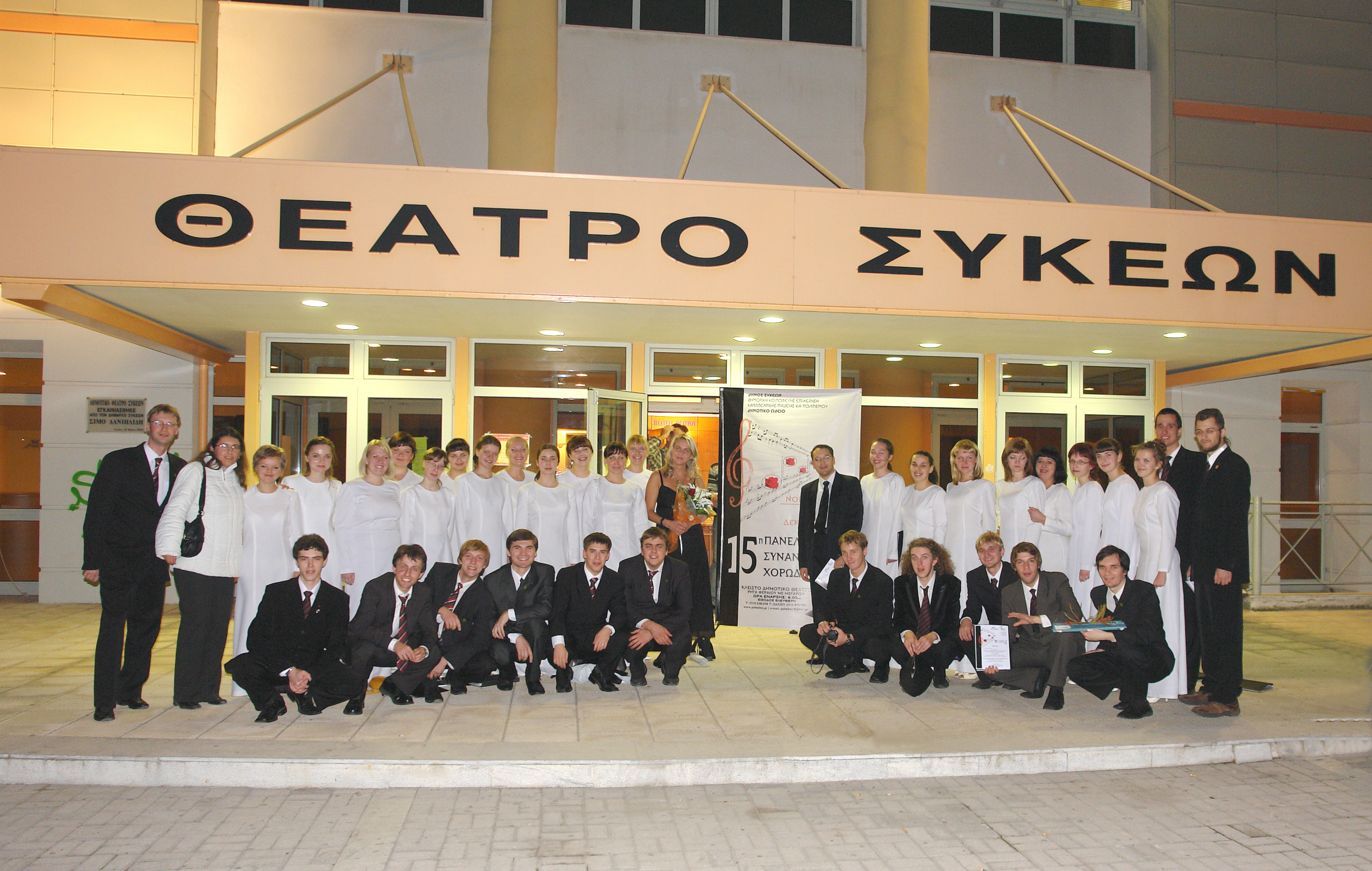 Academical choir of Petrozavodsk state university in 15th Choir Festival in Thessaloniki, Greece